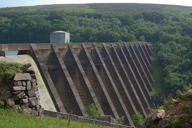 Wimbleball Dam, Somerset. Haddon Hill is in the background